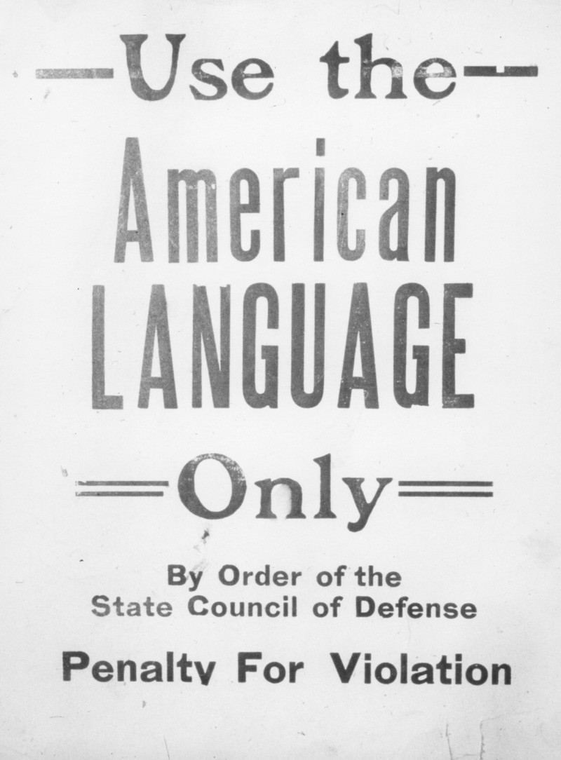 2015-0054m Description: Patriotic propaganda Date: ca. 1918 MLA filing: World War I -Miscellaneous Original Size: 12.5 x 16.5 cm Source: James Juhnke Note: Print copied from slide belonging to James Juhnke, 1995